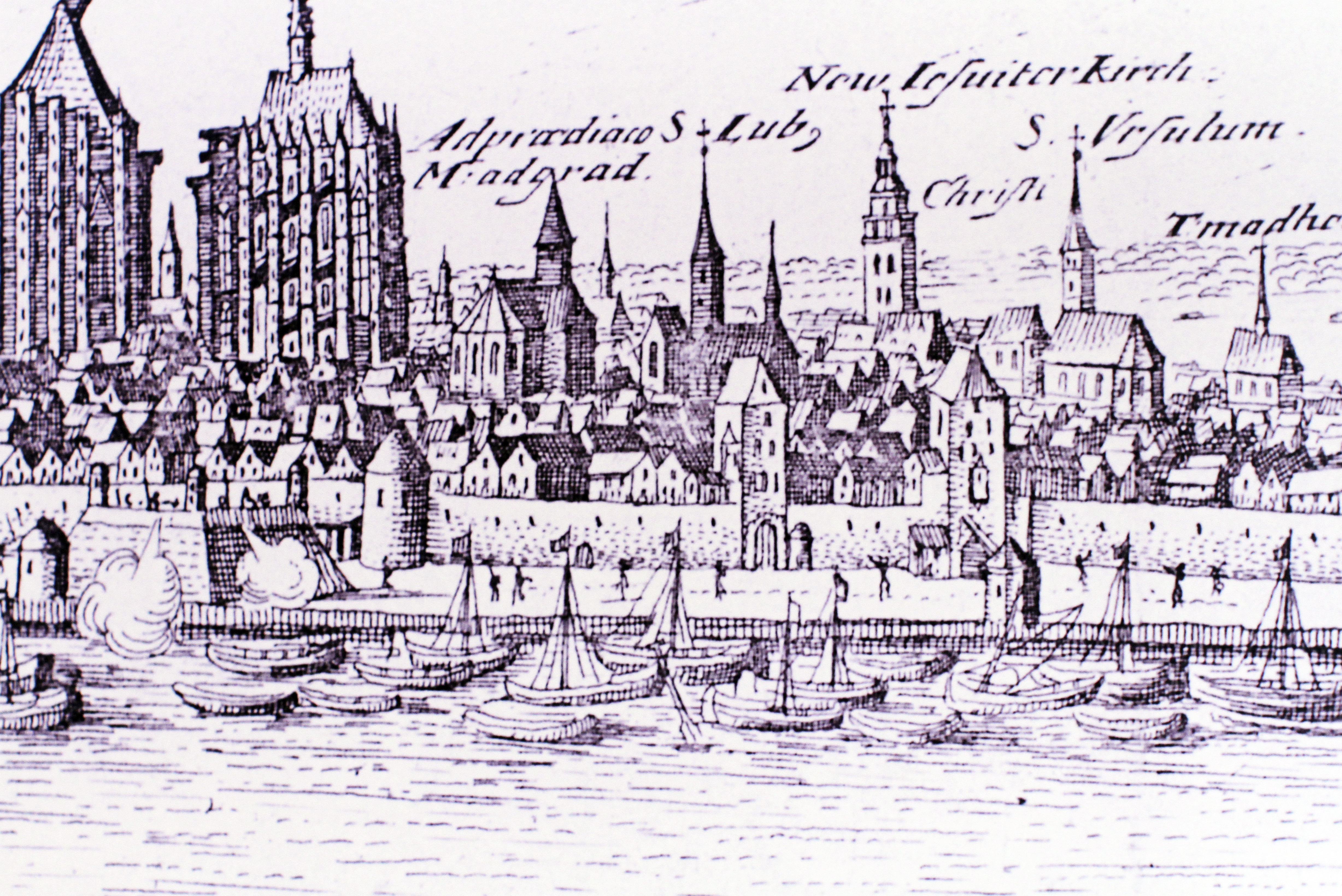 Cologne 1650, Engraving by Matthäus Merian (detail of a panorama picture)